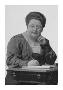 Portrait of young Rosa Manus (1881-1942/3) at her writing desk, ca. 1910. From the IIAV archives, returned from Moscow in 2003. Uit IAV-archieven, teruggekeerd uit Moskou in 2003.